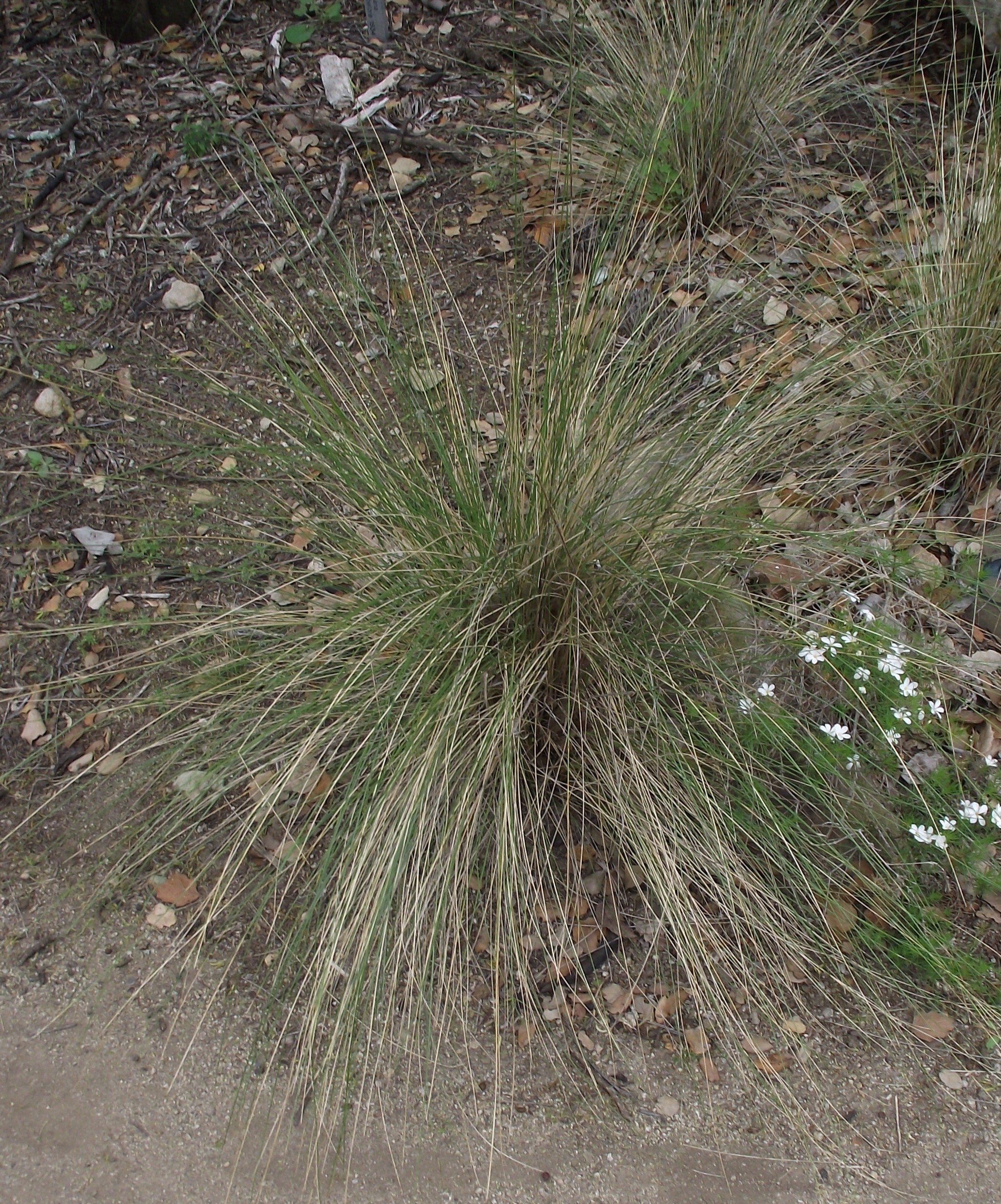 Achnatherum speciosum at Santa Barbara Botanic Garden, Santa Barbara, California, USA. Identified by sign.